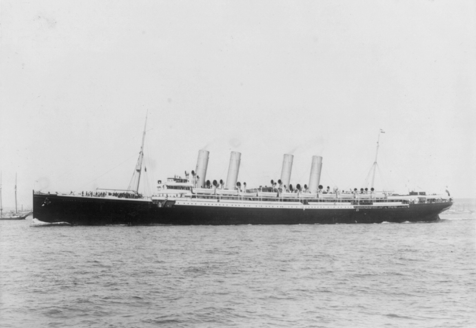 The German liner SS Kaiser Wilhelm der Grosse in 1897.